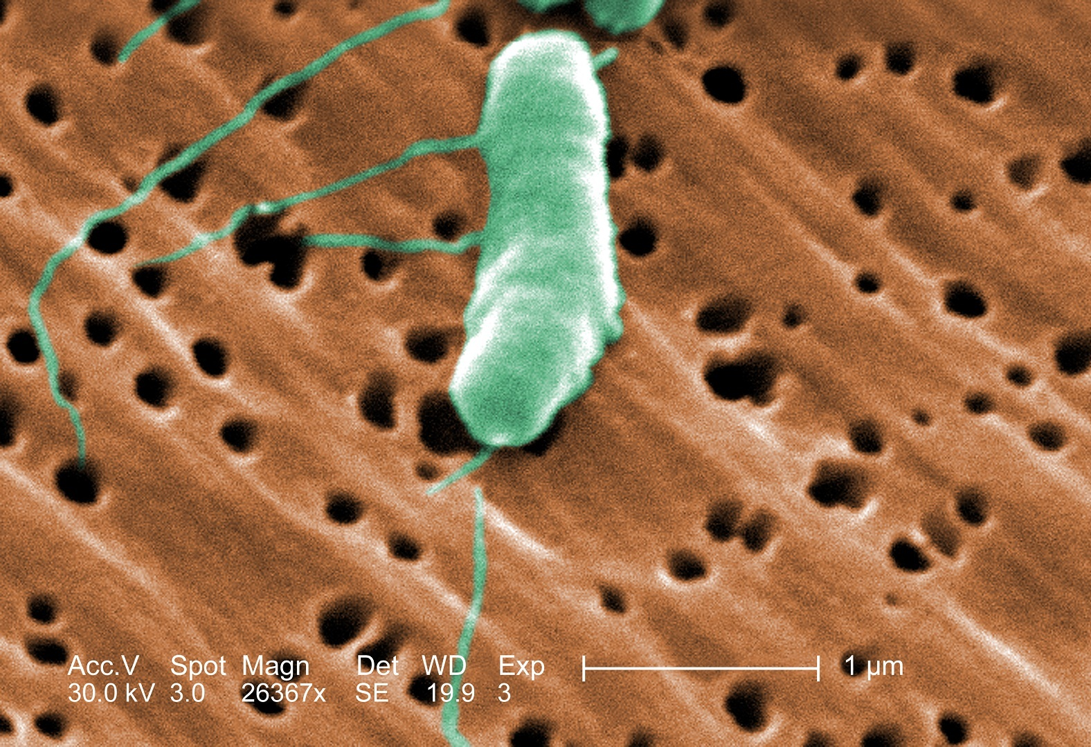 Flagellated Vibrio Vulnificus Bacterium - Colorized Scanning Electron Micrograph (SEM) (a bacterium in the same family as Vibrio choleraeis, responsible for the gastroinestinal disease cholera)